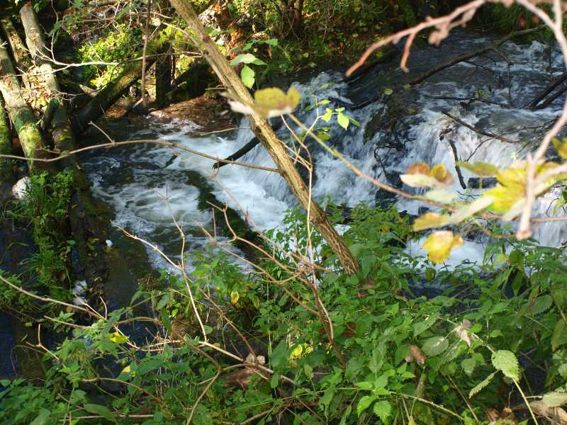 The cataract on the river Gryżynka